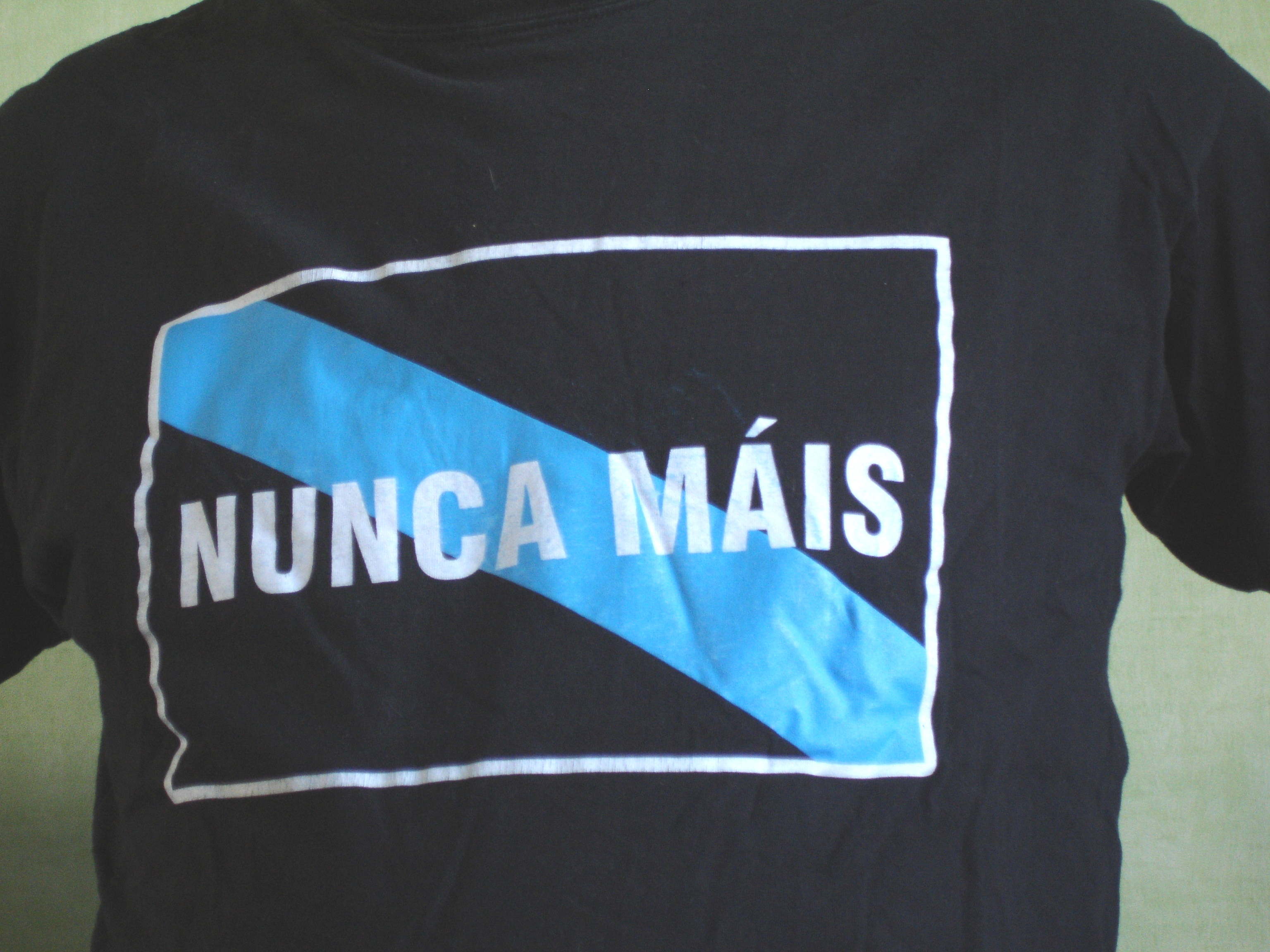 T shirt with text Nunca Máis. "Nunca Máis" was an environmental movement in Galicia, Spain, formed in response to the Prestige environmental disaster in 2002.